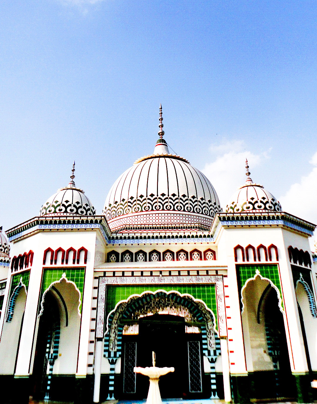 This shrine belongs to the father of peer of Eid Gah Peer Naqeen ur Rahman in Eid Gah ,Rawalpindi ,Punjab ,Pakistan . This is a photo of a monument in Pakistan identified as the Unknown